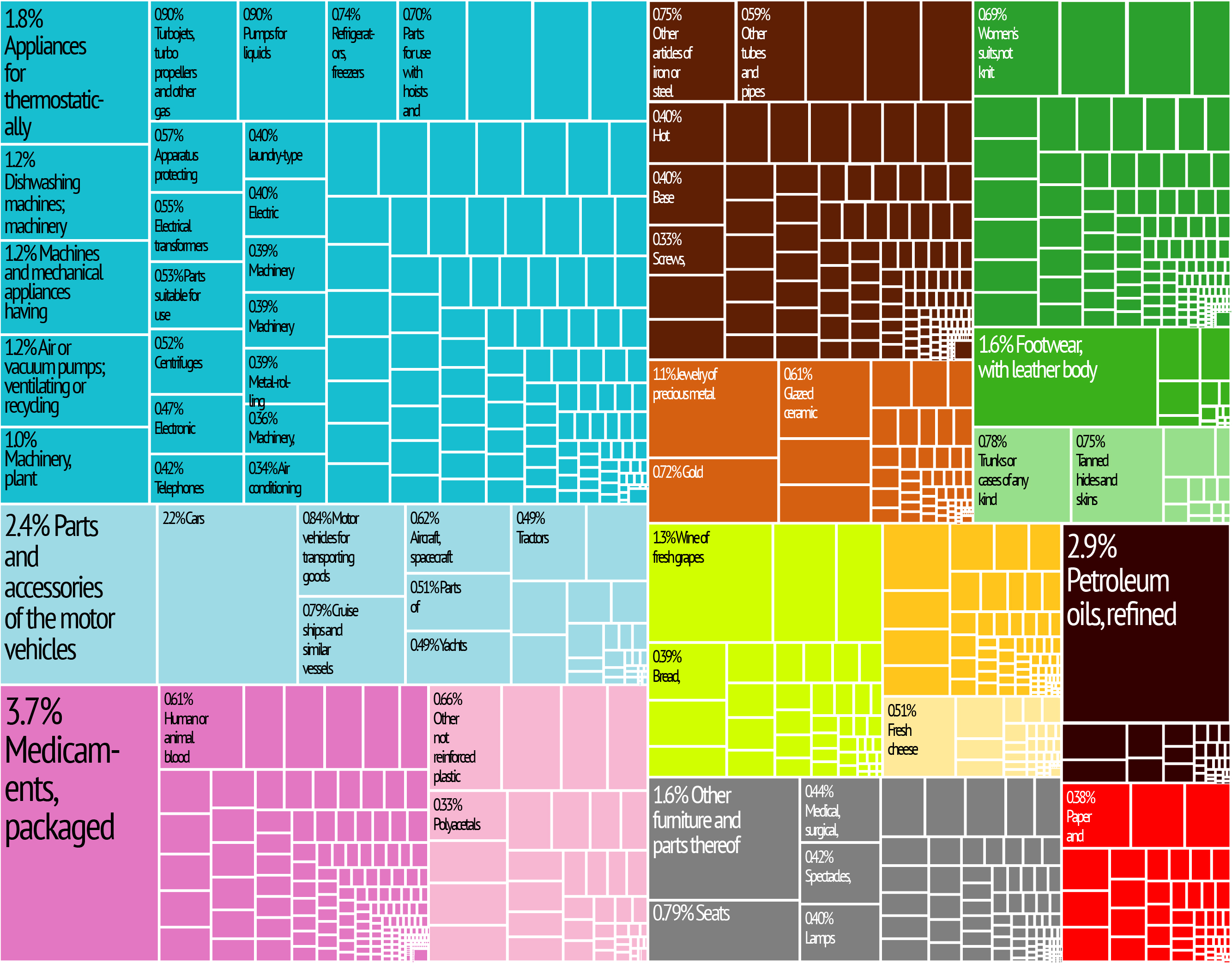 Italy Export Treemap from MIT Harvard Economic Complexity Observatory